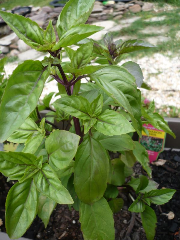 Young cinnamon basil plant (Ocimum basilicum 'Cinnamon')